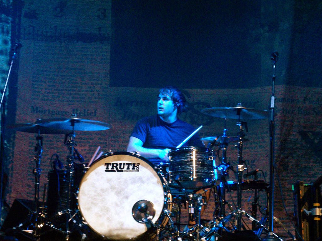 Paramore opening for No Doubt @ General Motors Place in Vancouver, BC. 7/18/2009